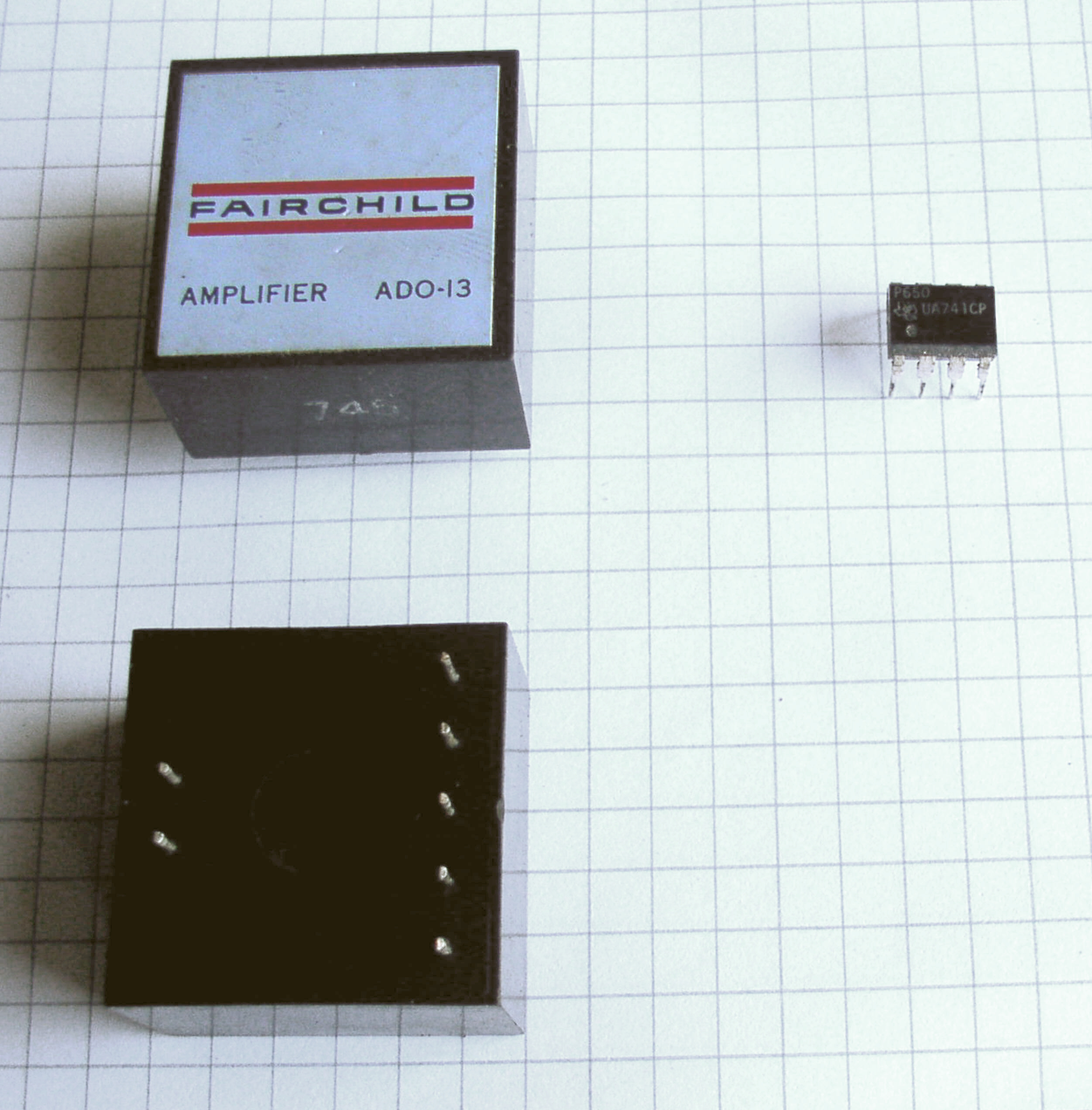 ADO-13, one of the first modular, fully sealed operational amplifier (ca. 1968) from Fairchild Semiconductor USA (size of the later standard µa 741 for comparison)